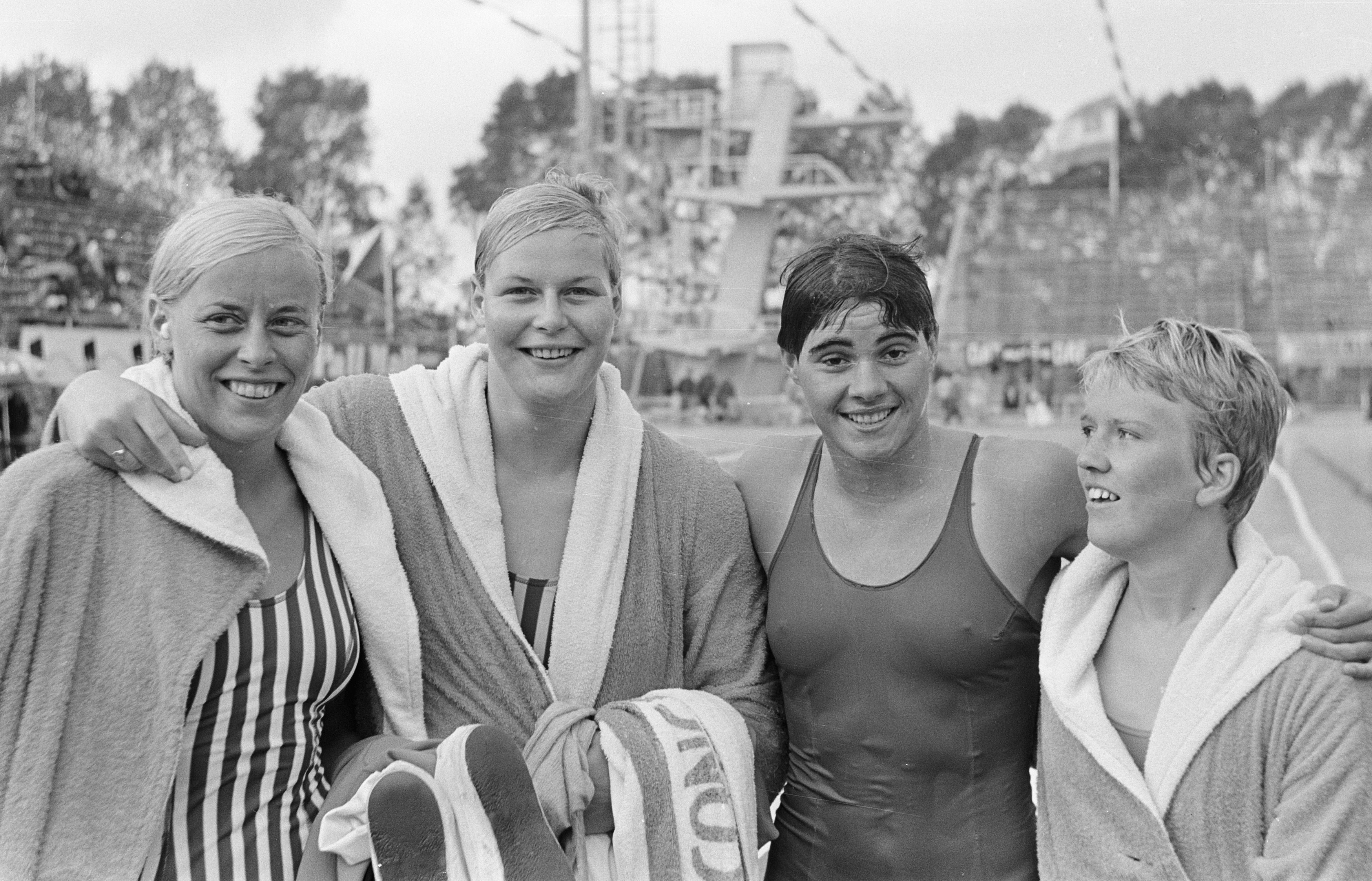 Dutch medley relay team at the European championships: Gretta Kok, Ada Kok, Toos Beumer and Cobie Sikkens